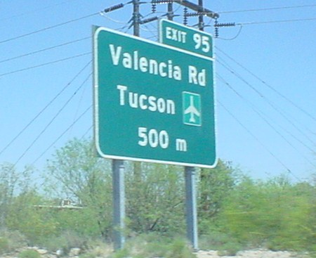 A road sign on Interstate 19 just south of Tucson, AZ, USA; note the Metric Units used. Photo taken on 18 April 2005.